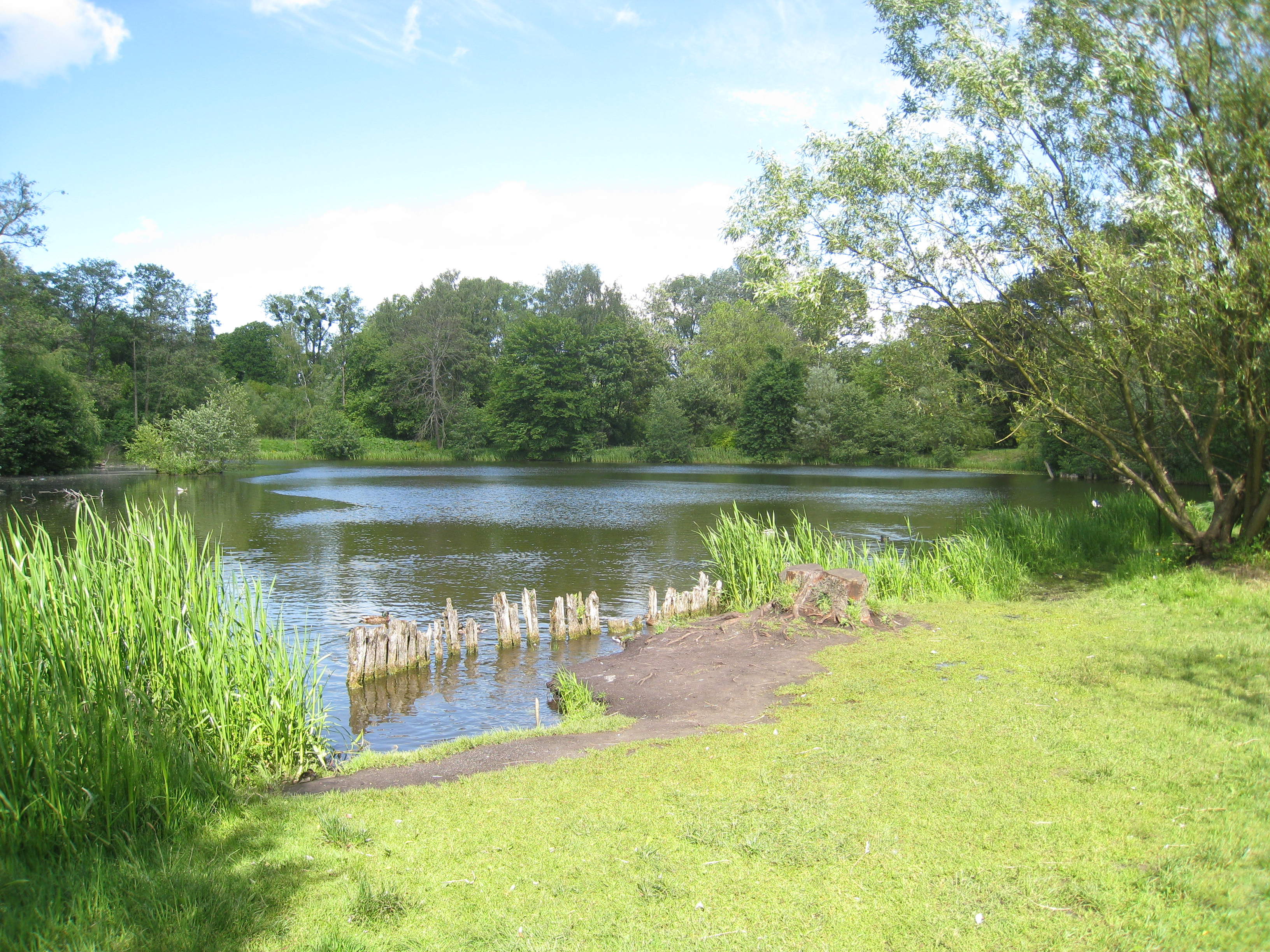 the pond